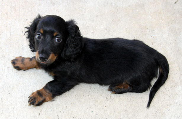 Mini Longhair Dachshund Puppy, 8 weeks old, male